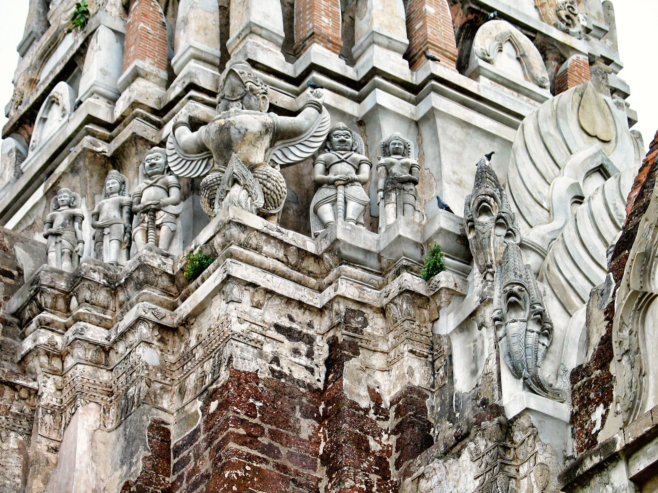 Wat Ratchaburana (also Wat Ratburana), Ayutthaya historical park, Thailand